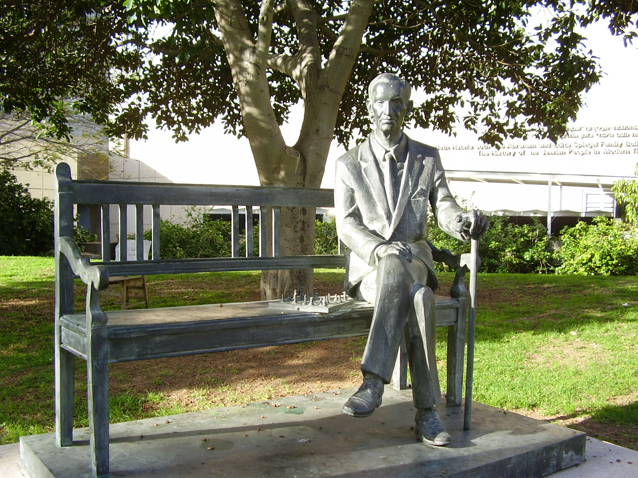 statue of jan karski (2009) in tel aviv university פסל של יאן קארסקי (2009) באוניברסיטת תל אביב